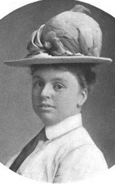 A young white woman wearing a collared-shirt and a necktie, and a large brimmed hat.